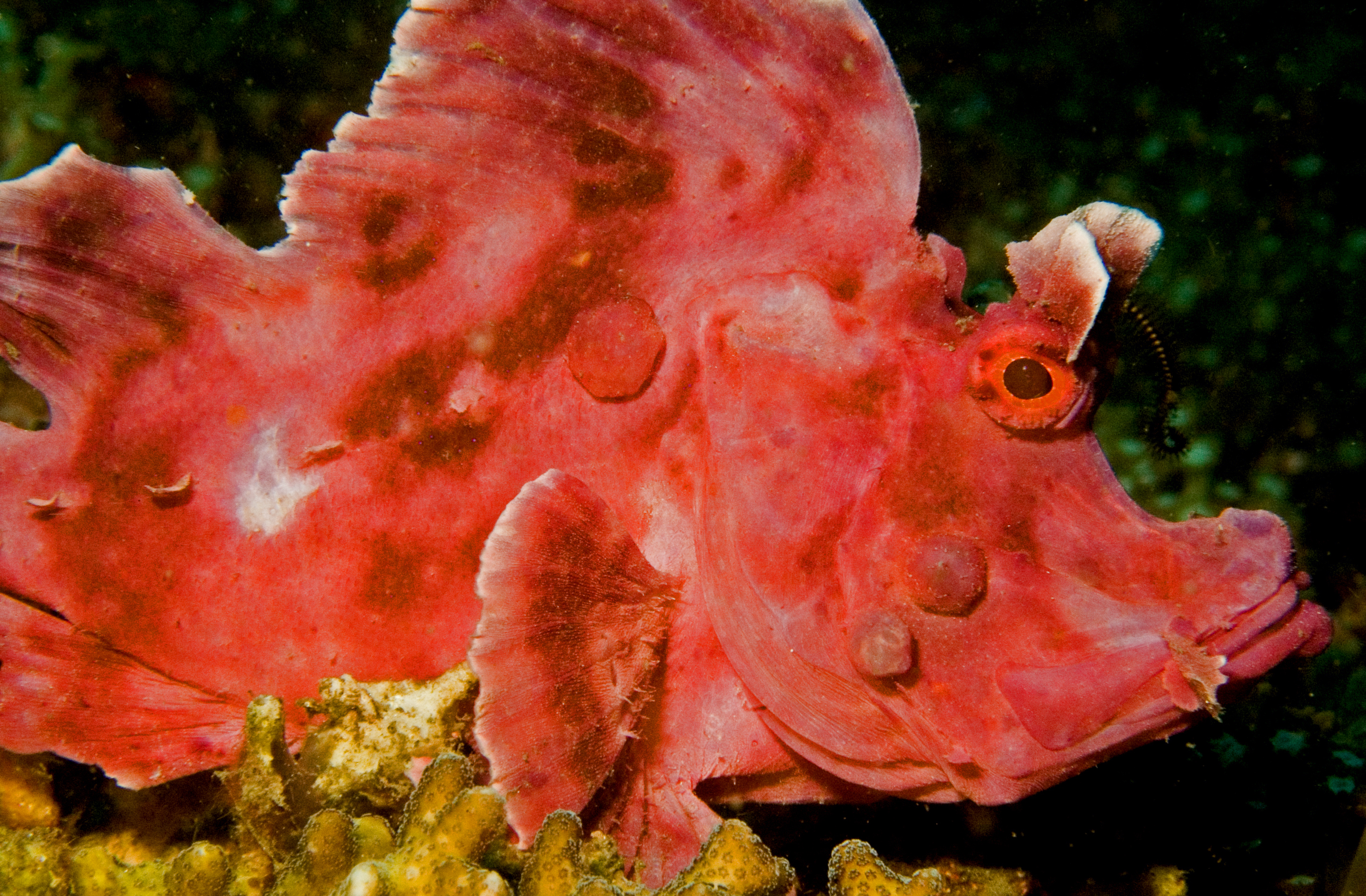 Close-up of Rhinopias eschmeyeri, the Paddle-flap scorpionfish.